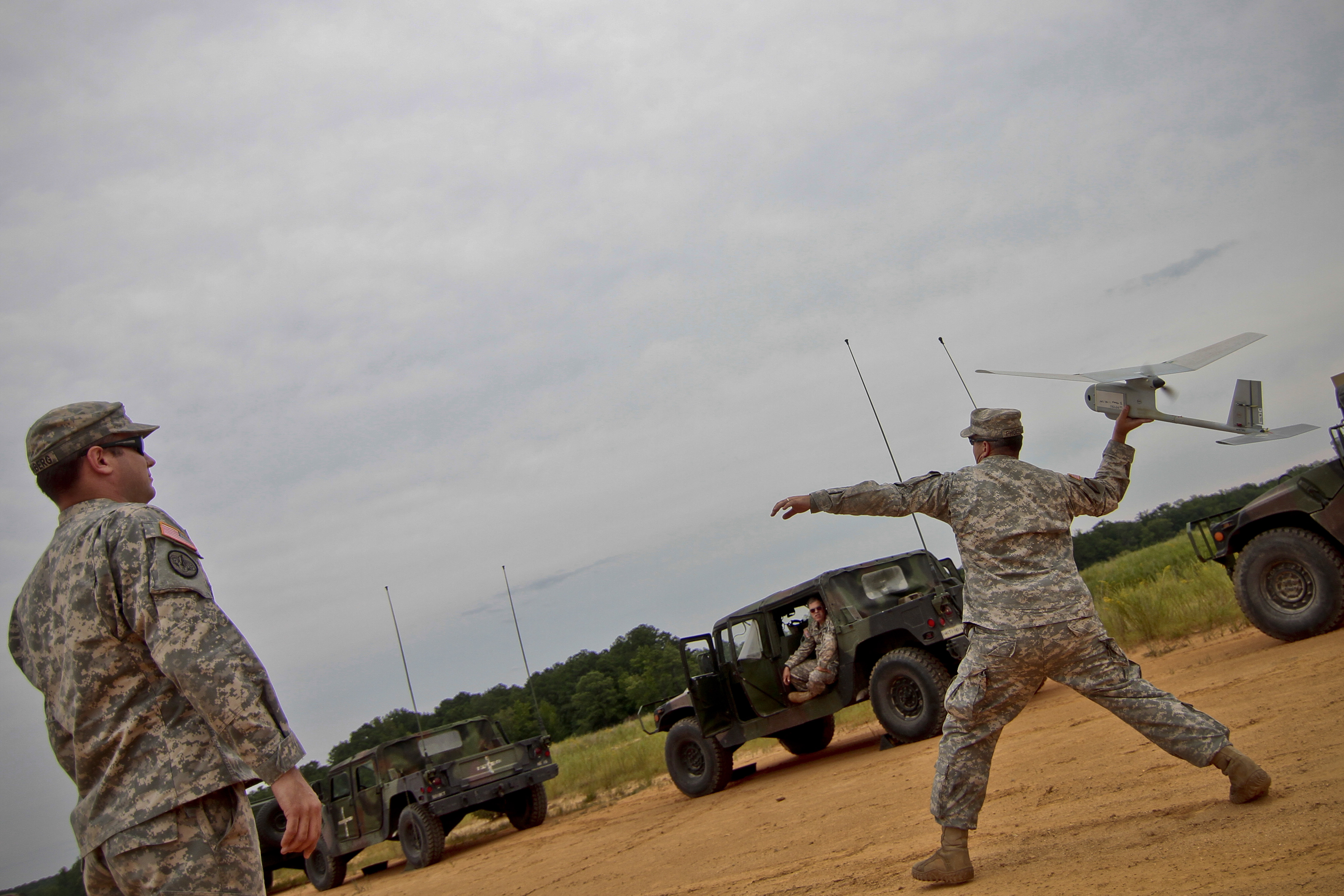 U.S. Army Staff Sgt. Robert Phoebus from the New Jersey Army National Guard's C Troop, 102nd Cavalry Regiment, 50th Infantry Brigade Combat Team launches an RQ-11B Raven unmanned aerial vehicle while Staff Sgt. James Nirenberg, a Raven master instructor from the Florida Army National Guard, provides instruction at Castles Drop Zone, Fort Pickett, Va., on Aug. 16. Phoebus is from Hackettstown, N.J. (U.S. Air National Guard photo by Tech. Sgt. Matt Hecht/Released) Unit: 177th Fighter Wing – NJ Air National Guard DVIDS Tags: soldier; Air National Guard; New Jersey; National Guard Bureau; pilot; NGB; Raven; Virginia; Fort Pickett; UAV; New Jersey Army National Guard; exercise; U.S. Army; USA; Army; NJ; training; 50th Infantry Brigade Combat Team; RQ-11B; 50th ICBT; 102nd Cavalry Regiment; castles DZ